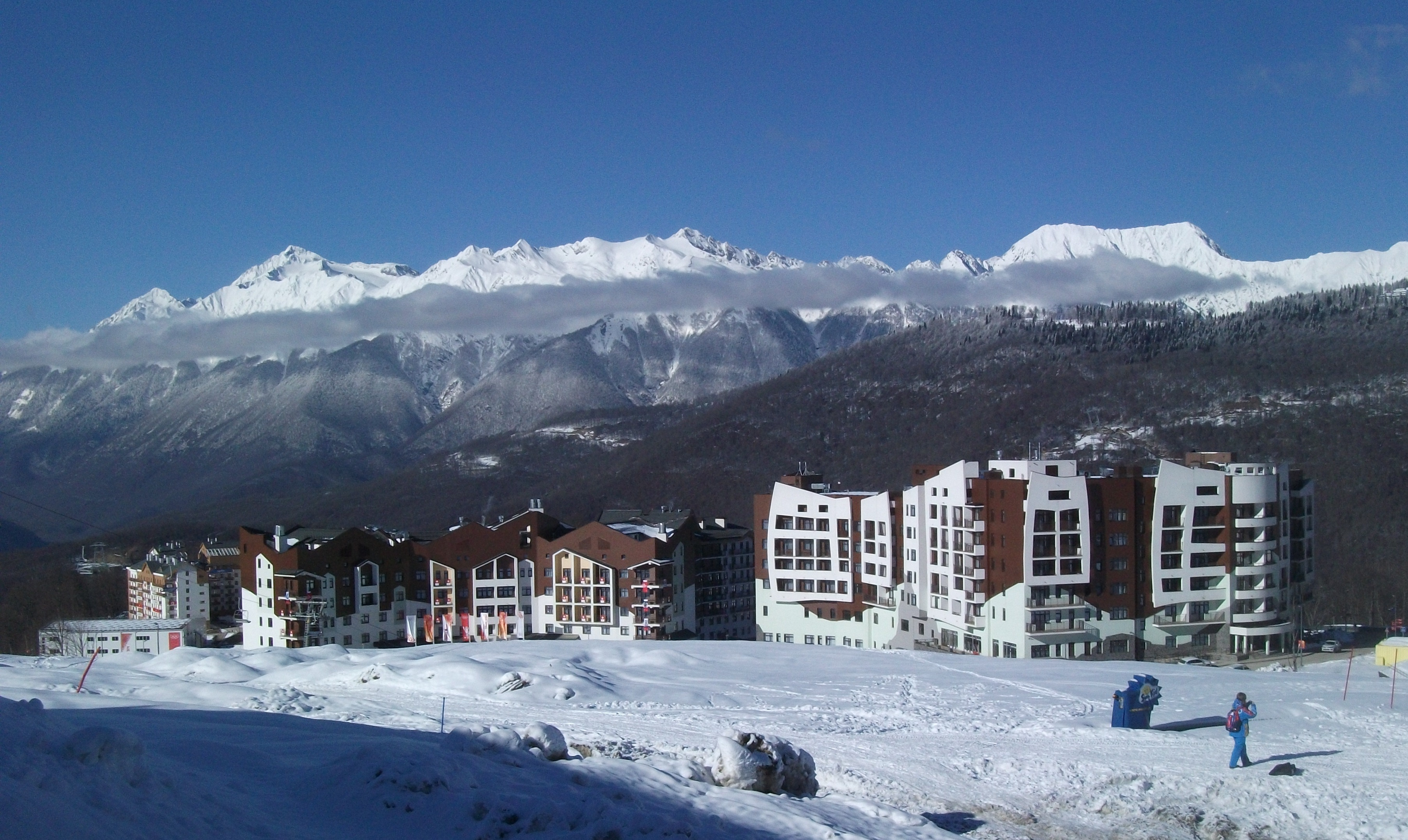 The mountain Olympic village in the resort of Rosa Khutor, Krasnaya Polyana.